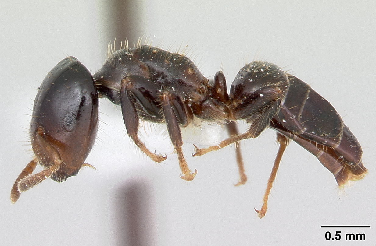 Profile view of ant Cladomyrma hewitti specimen casent0173906.